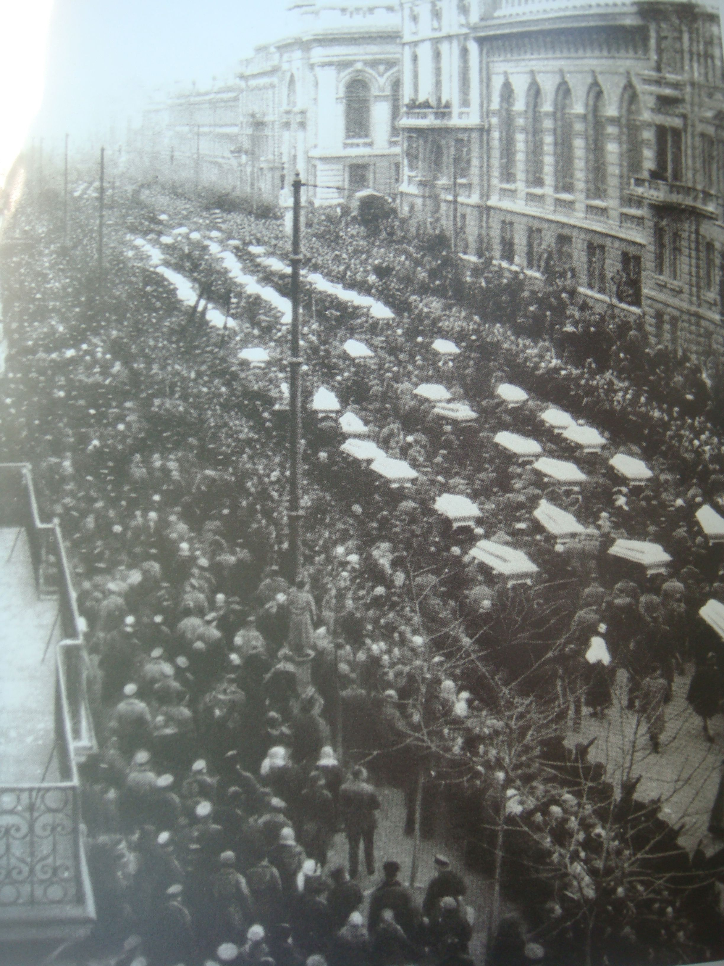 Russian Civil War. Funeral of victims of clashes of february 1918 in Odessa.